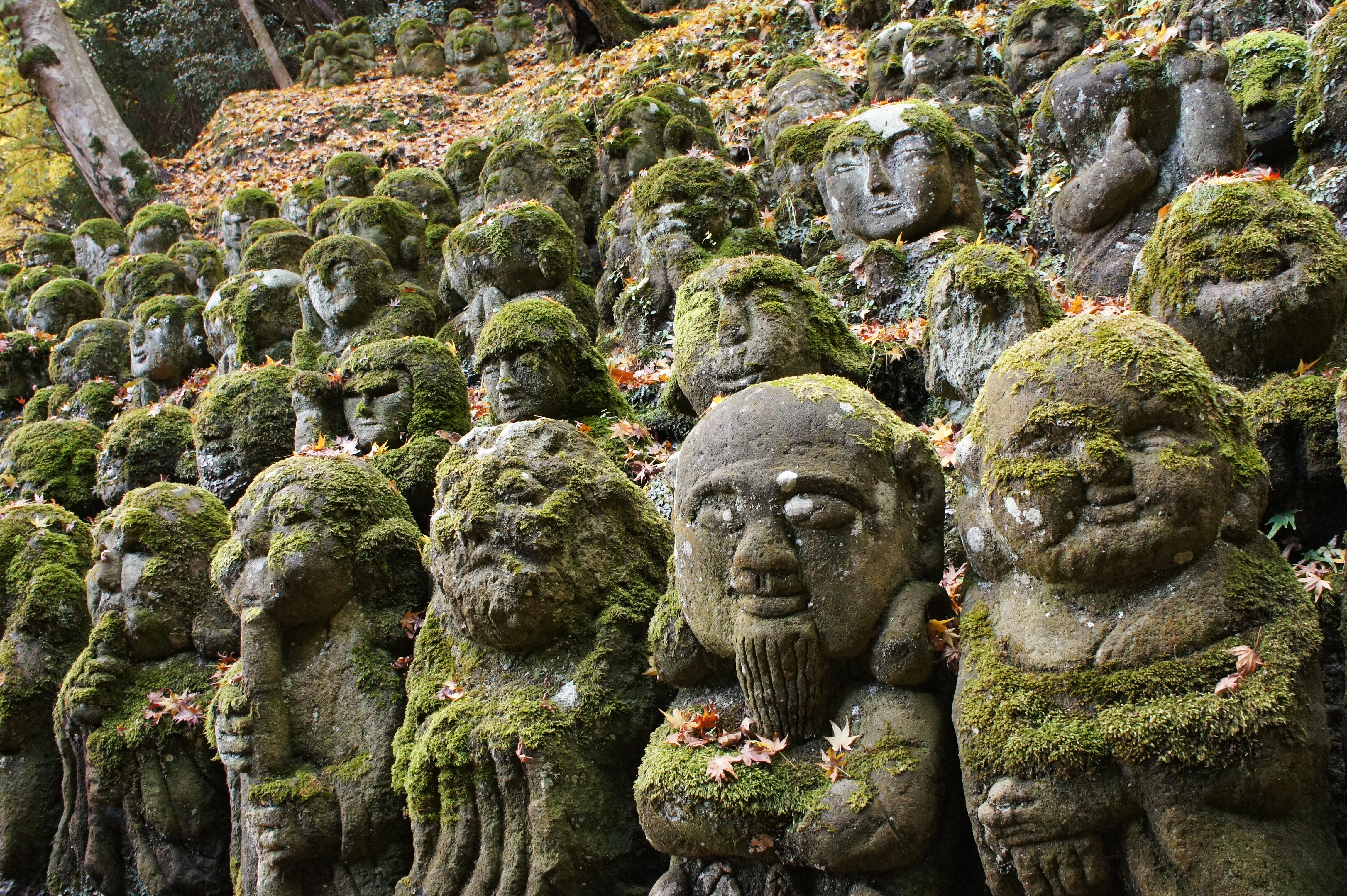 Otagi Nenbutsu-ji in Sagano, Kyoto, Kyoto prefecture, Japan